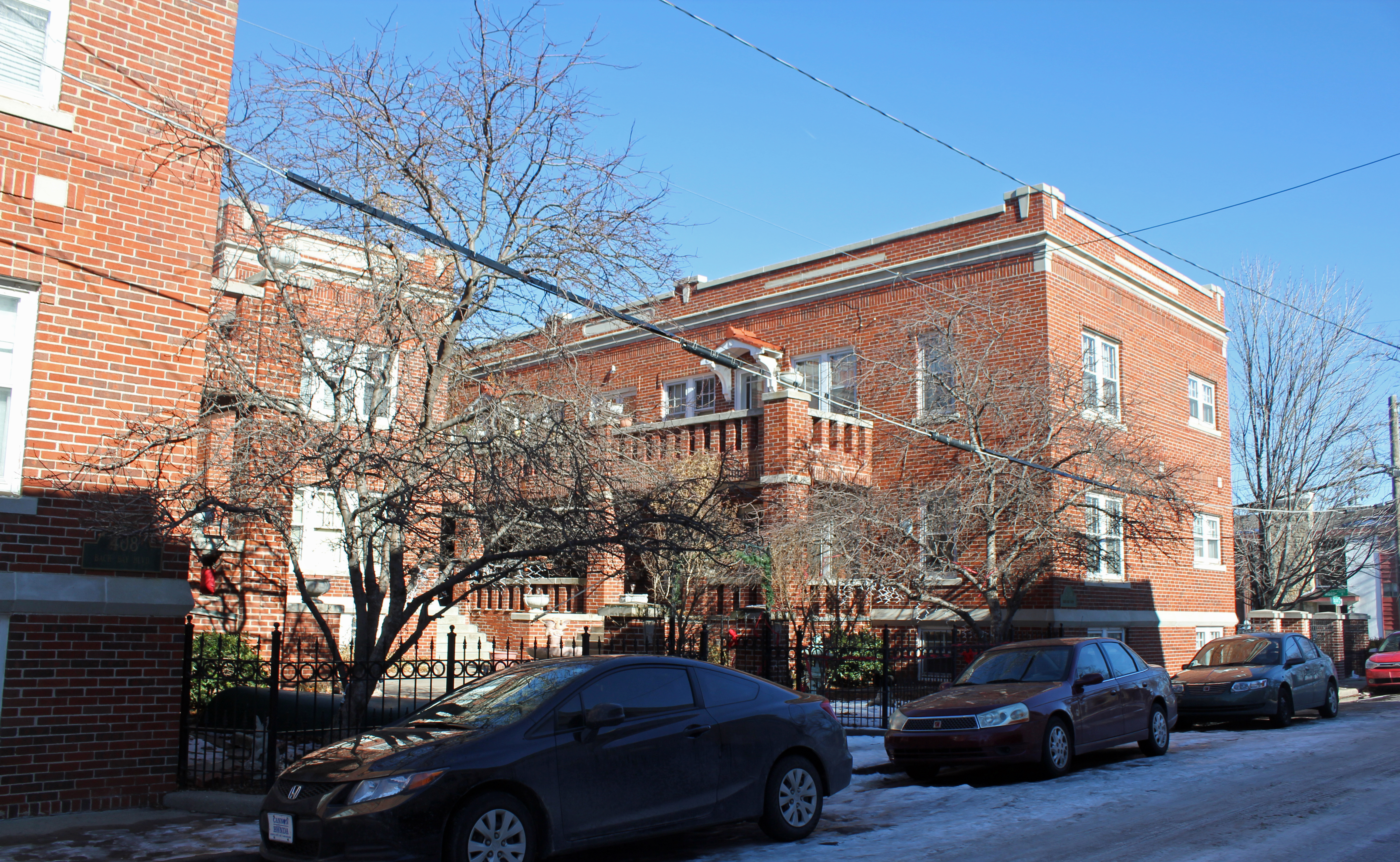 The Riverview Apartments, located at 404-408 Back Bay Boulevard in Wichita, Kansas. The property is listed on the National Register of Historic Places.